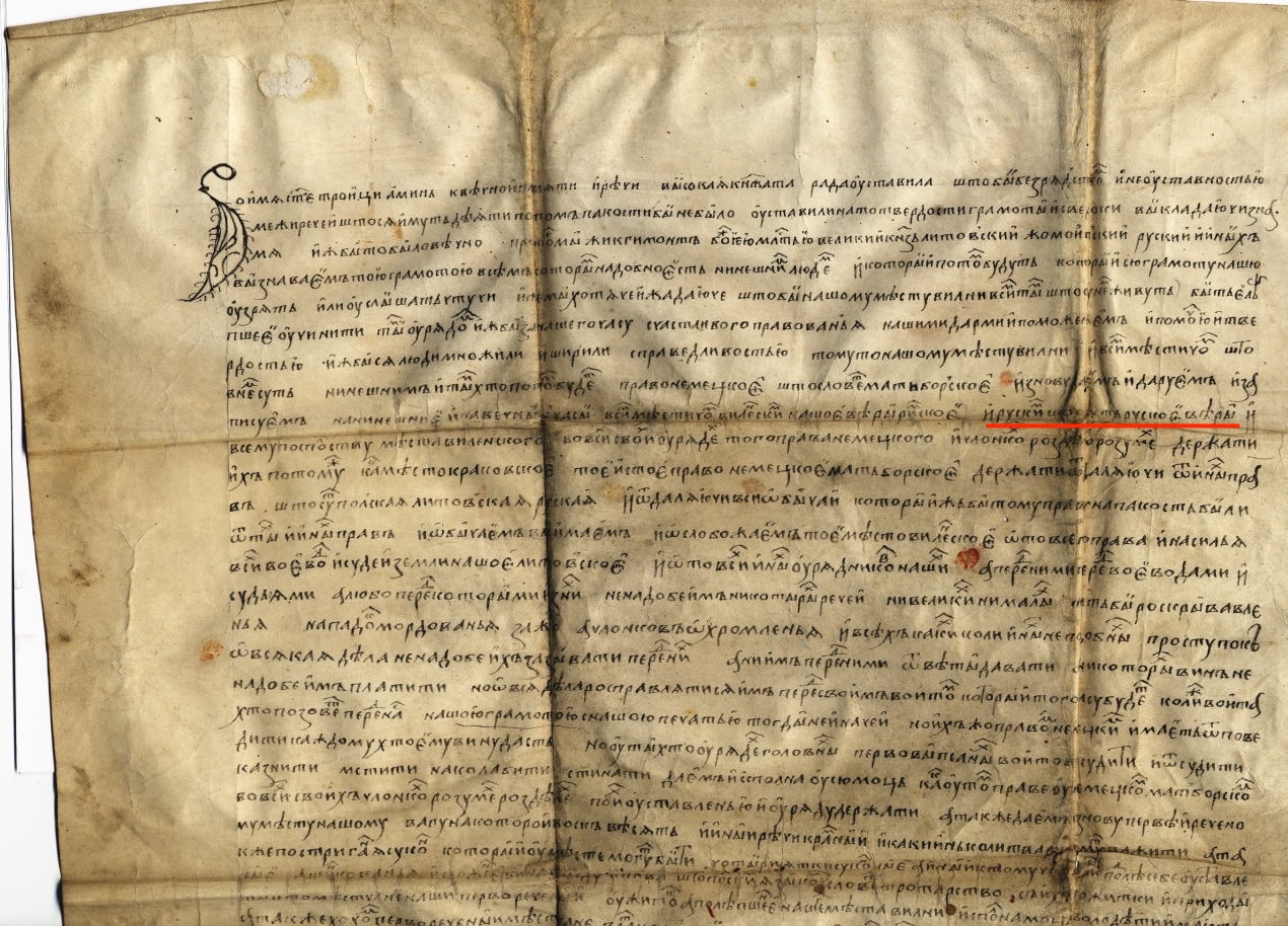 Diploma Zygmunt (Sigismund) from September 27, 1432 the citizens of Vilna, Grand Duchy of Lithuania